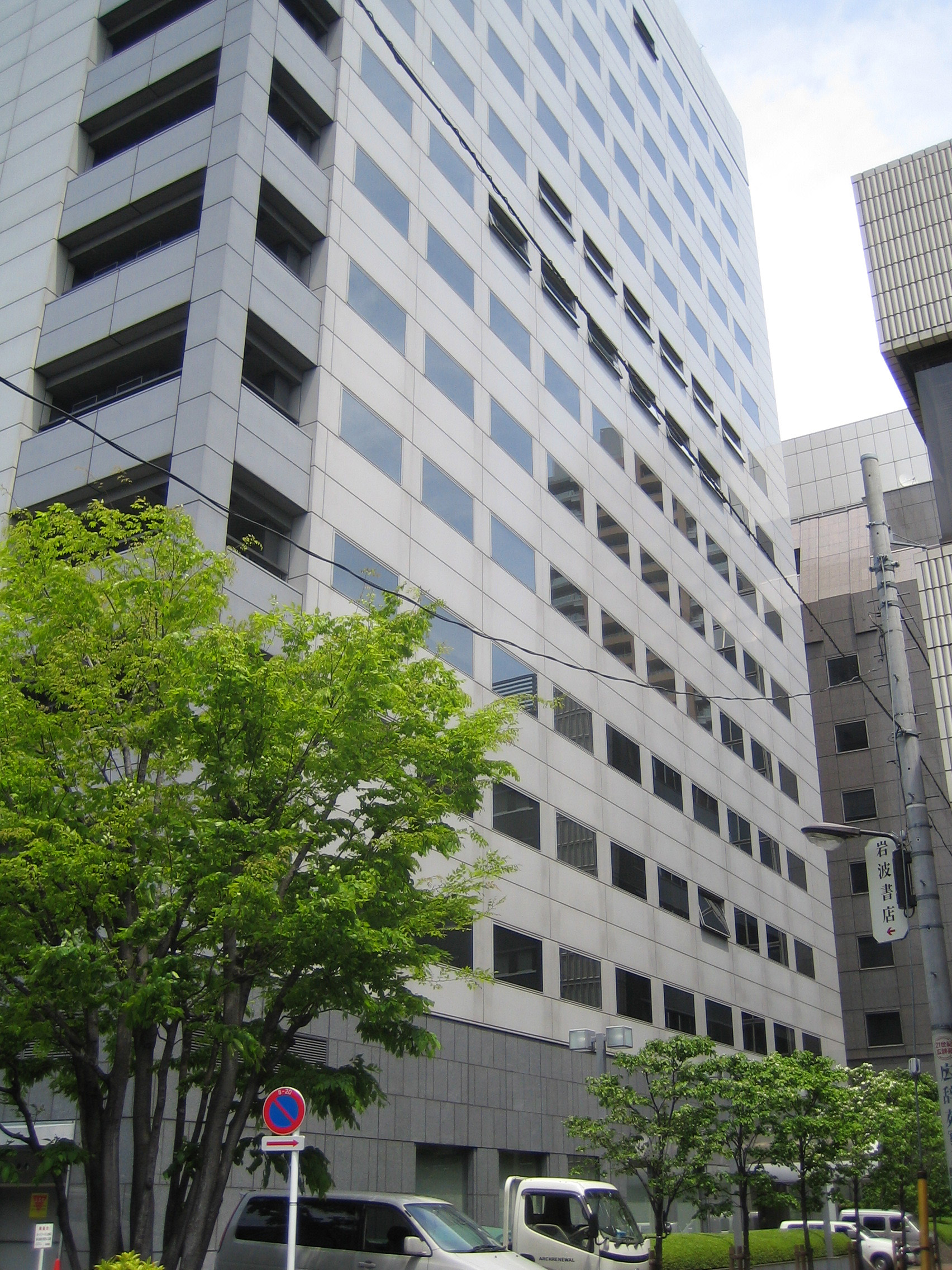 岩波書店本社。東京都千代田区一ツ橋Iwanami Shoten, Publishers. (岩波書店 Iwanami Shoten), at Hitotsubashi, Chiyoda, Tokyo, Japan